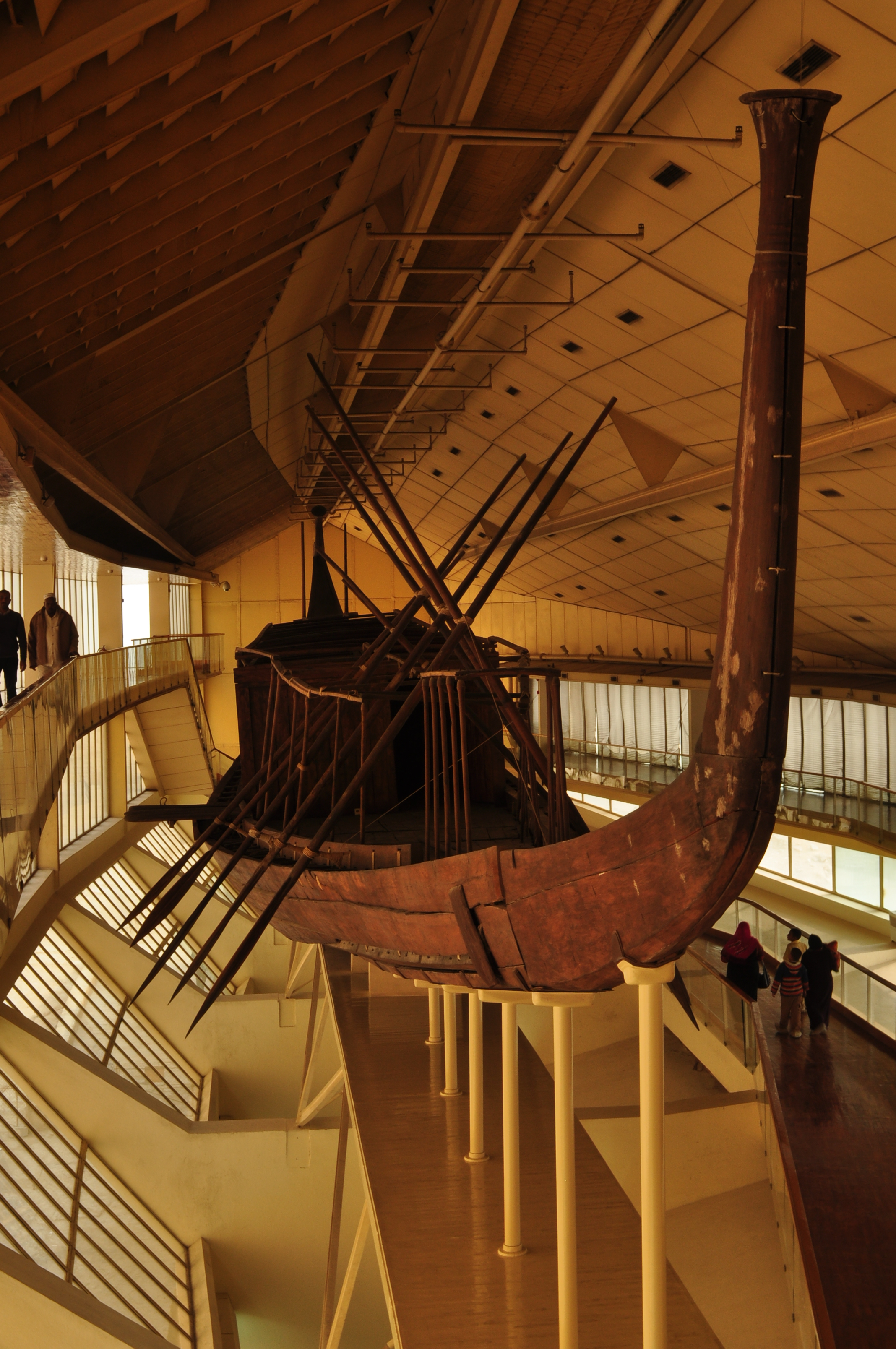 one of the ancient sun boats near the great pyramid in Giza,Egypt